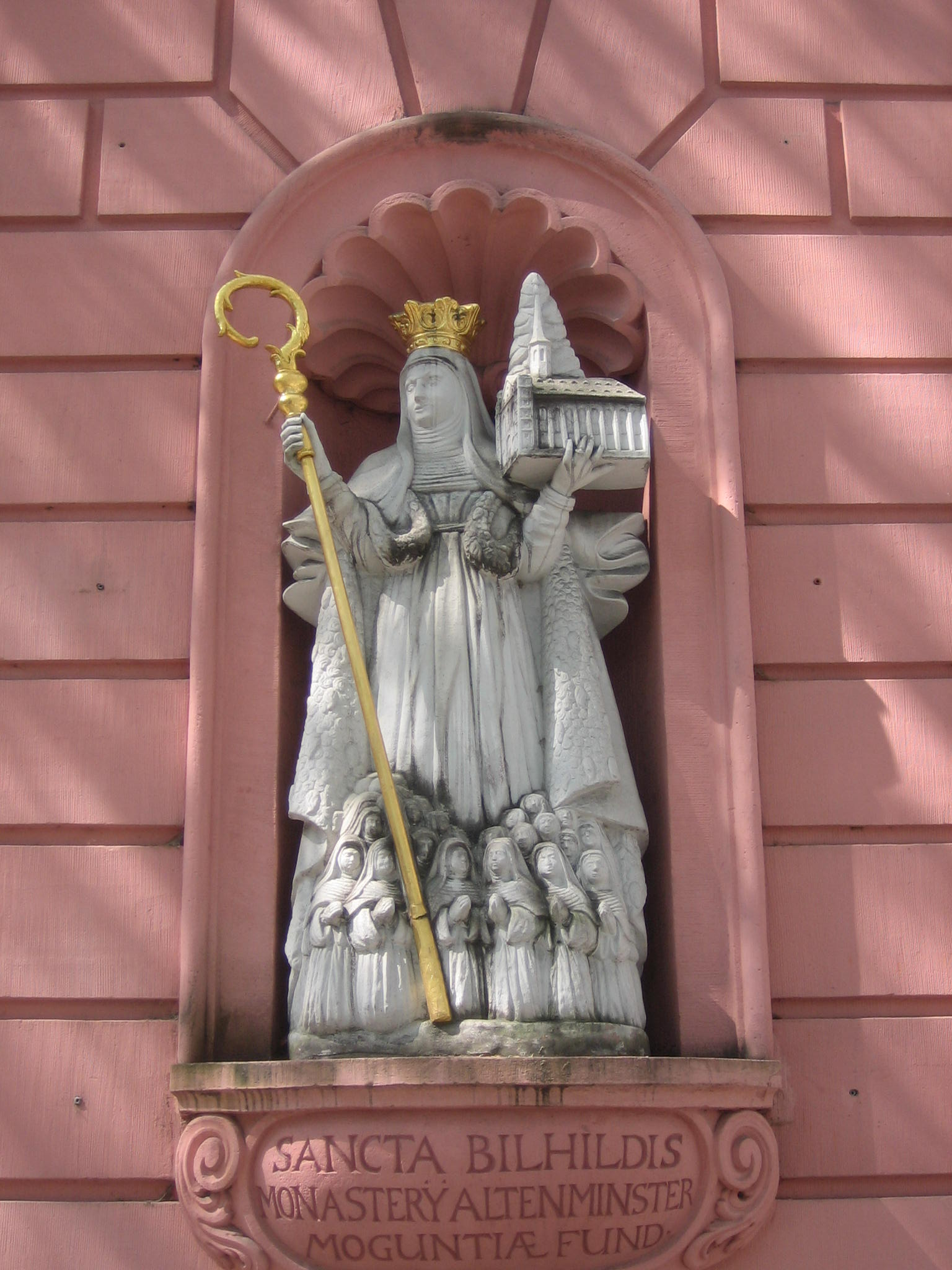 Saint Bilihildis sculpture as abbess of the monastery of Altmünster near Mainz